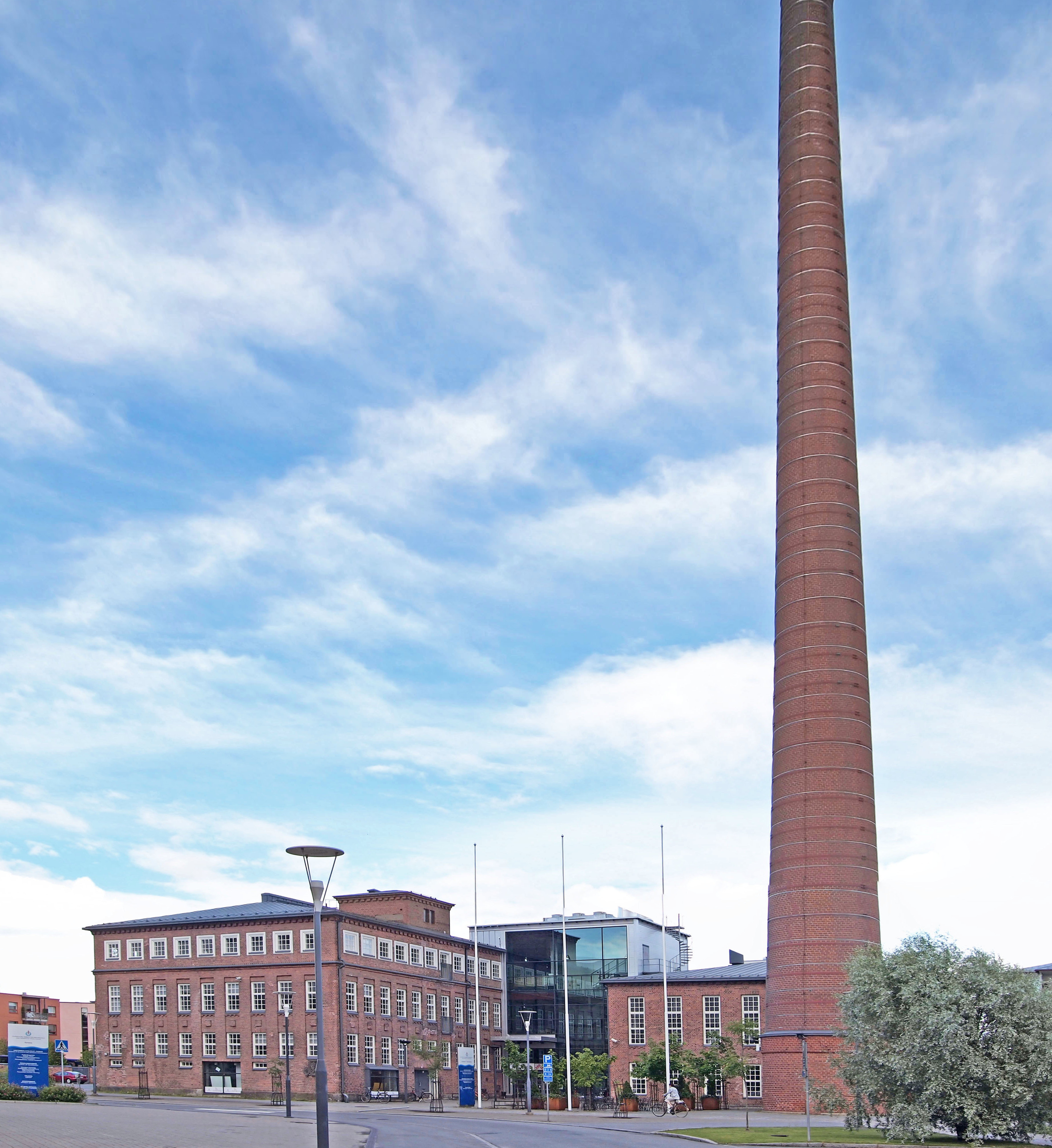 Old Schauman factory in Lutakko, Jyväskylä.